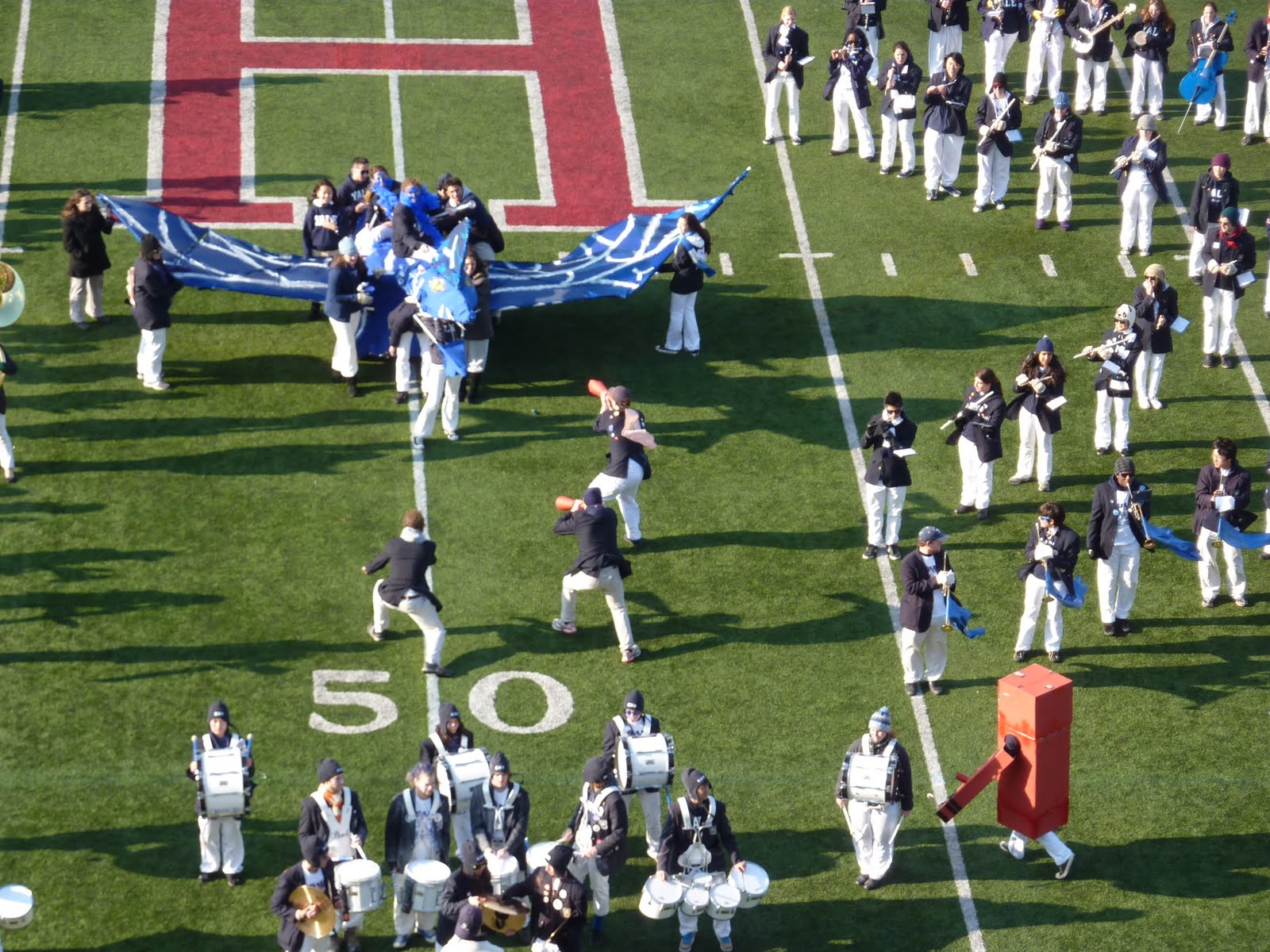 Yale Precision Marching Band and their überprop Dmitri at The Game 2010.